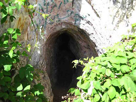 غار سم دومین غار خطرناک ایران